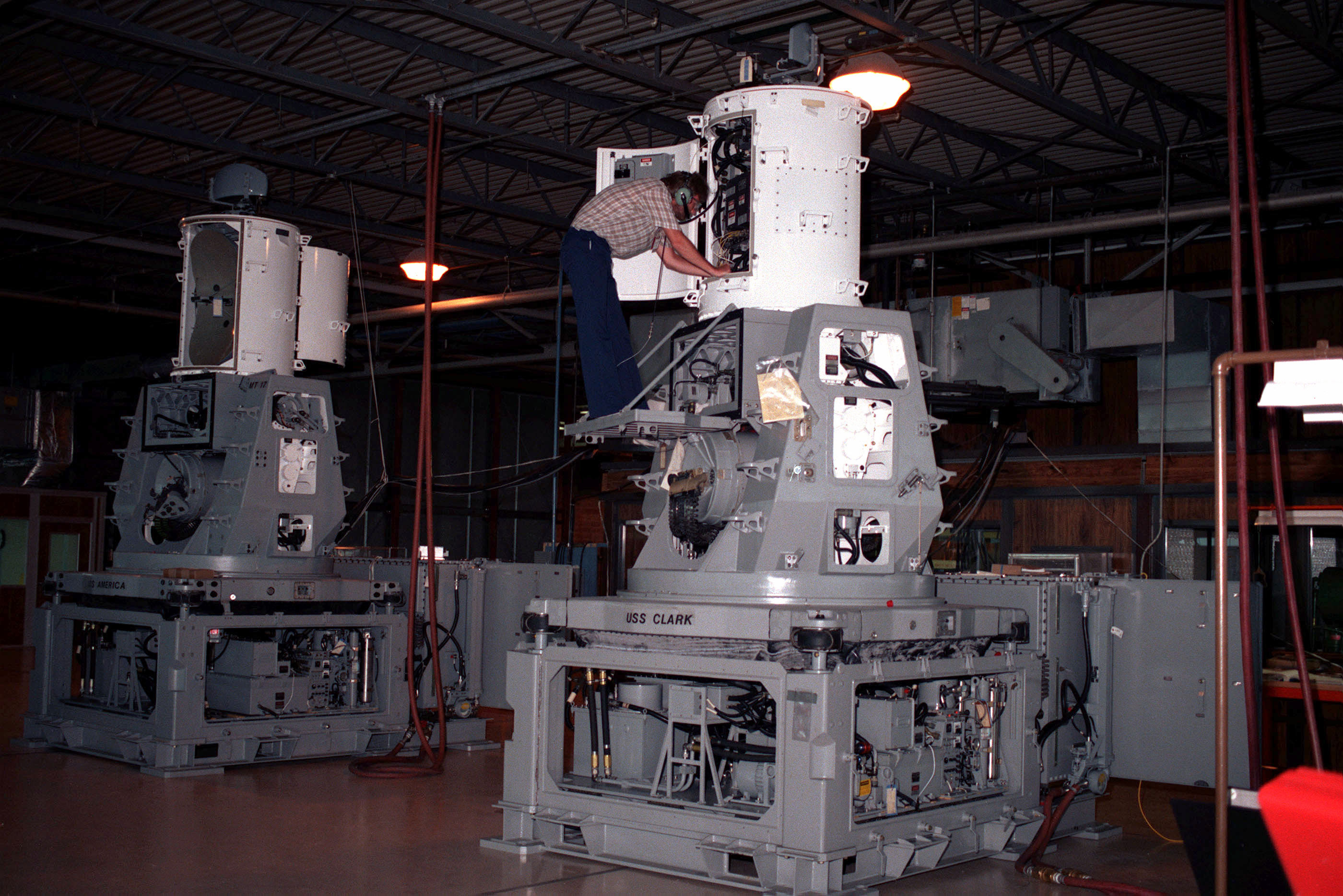 A technician checks over the RADAR transmitter and microwave assemblies in a Mark 16 PHALANX close-in weapon system (CIWS) on the floor of Building L. The ordnance station is the designated overhaul and repair facility for the PHALANX CIWS.Location: NAV ORDNANCE STATION, LOUISVILLE, KENTUCKY (KY) UNITED STATES OF AMERICA (USA)